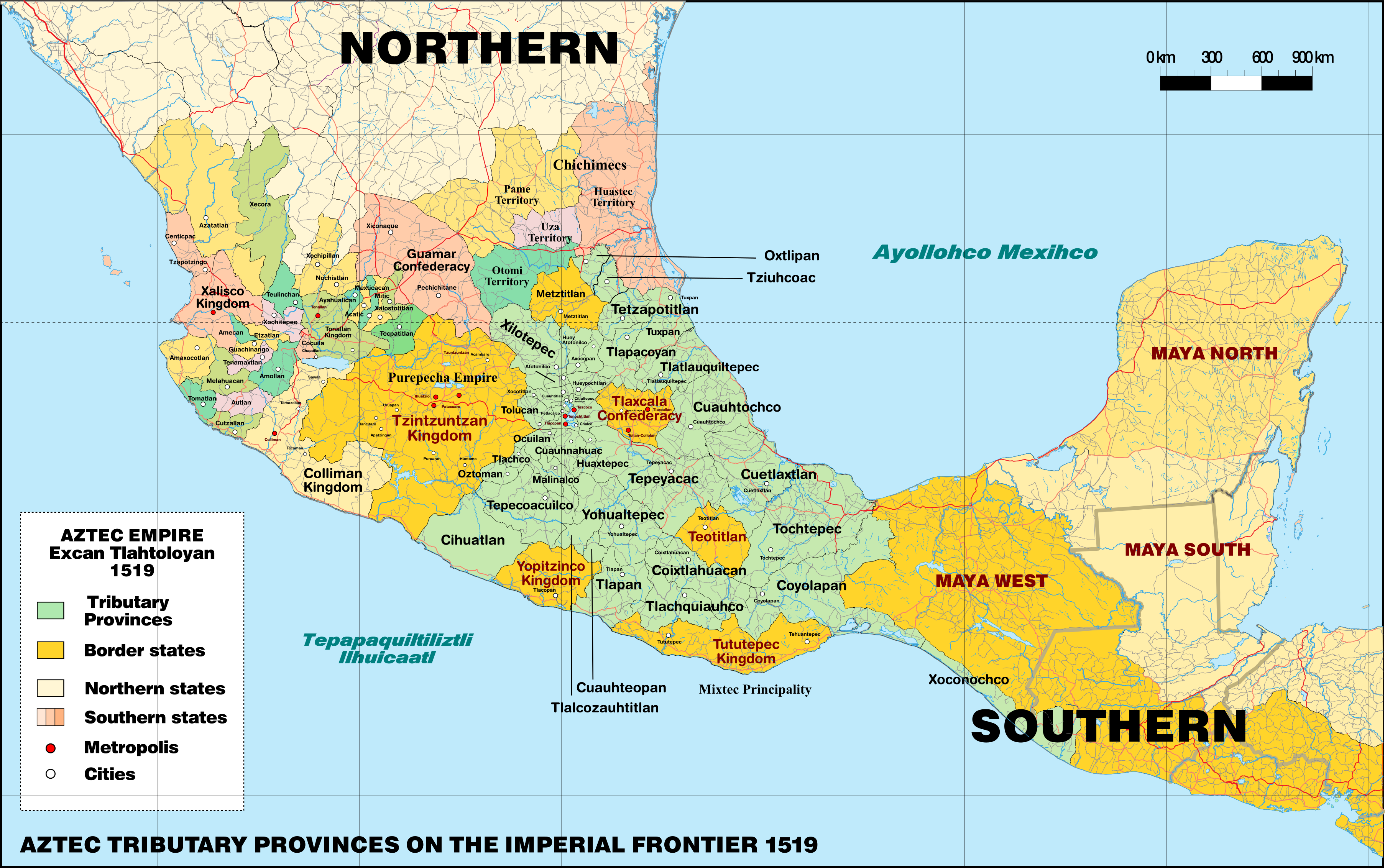 Territorial Organization of the Aztec Empire 1519 The Triple Alliance Tenochtitlan, modern Mexico City Texcoco (Tezcoco or Tetzcoco) Tlacopan, modern Mexico City Tributary Provinces Atlán Atotonilco de Pedraza Atotonilco del Grande Axocopan Cihuatlan Coixtlahuaca Cotaxtla Cuahuacan Cuauhnāhuac Cuilapan Huatusco Huaxtepec Malinalco Ocuilan Oxitipan Quiauhteopan Soconusco Tepeaca Tepecoacuilco Tlachco Tlacozauhtitlan Tlapacoyan Tlapan Tlatlauhquitepec Tlaxiaco Tochpan Tochtepec Toluca Tzicoac Xilotepec Xocotilan Yoaltepec Strategic Provinces Acatlan Ahautlan Ayotlan Chiapan Chiauhtlan Cuauhchinanco Huexotla Ixtepexi Ixtlahuaca Miahuatlan Misantla Ocuituco Tecomaixtlahuacan Tecpantepec Temazcaltepec Teozacoalco Teozapotlan Tetela Xalapa Cempoalatl, or Zempoala Zompaynco